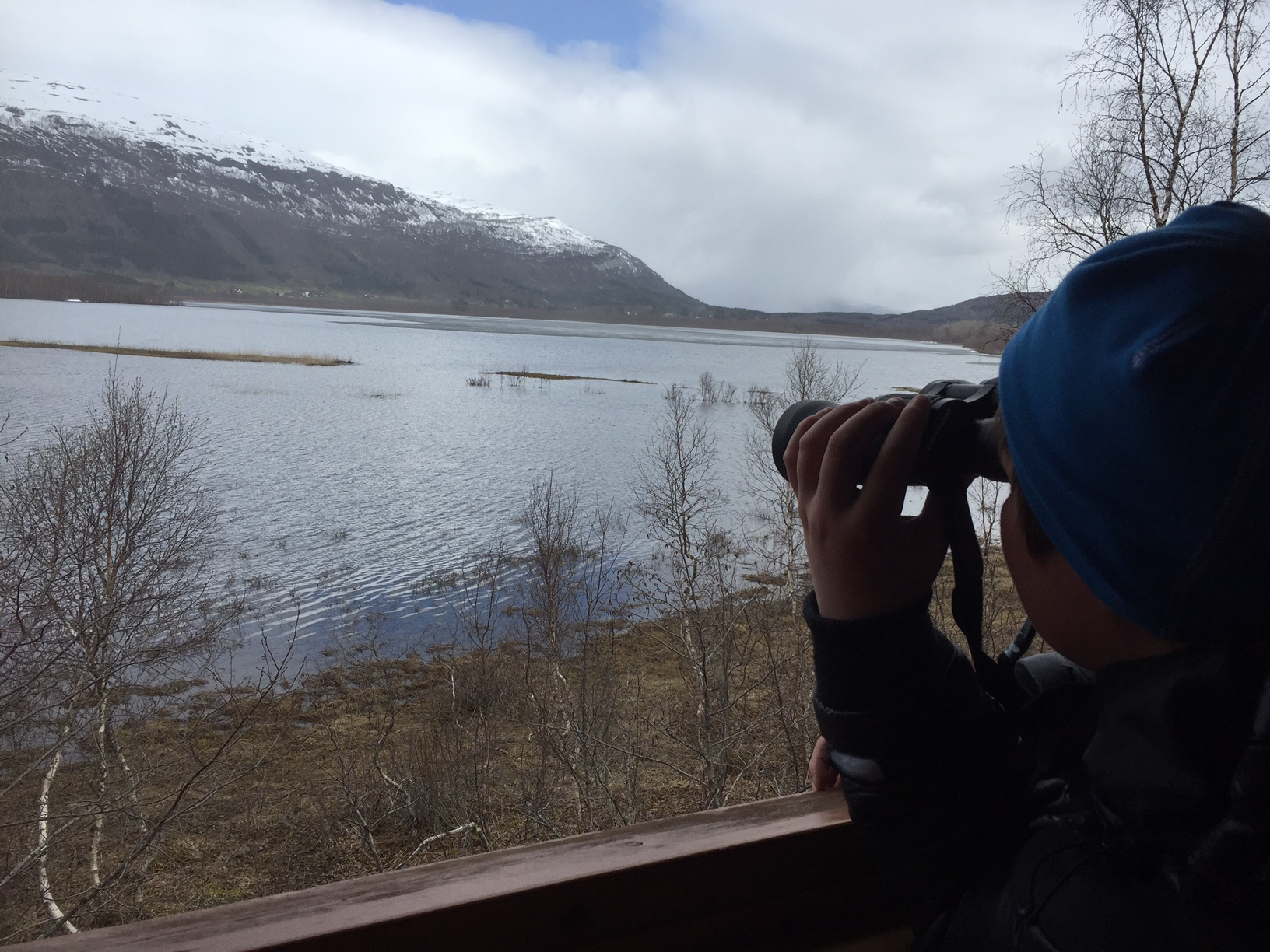 Boy watching birds and learning about nature in Fauskeeidet naturreservat.